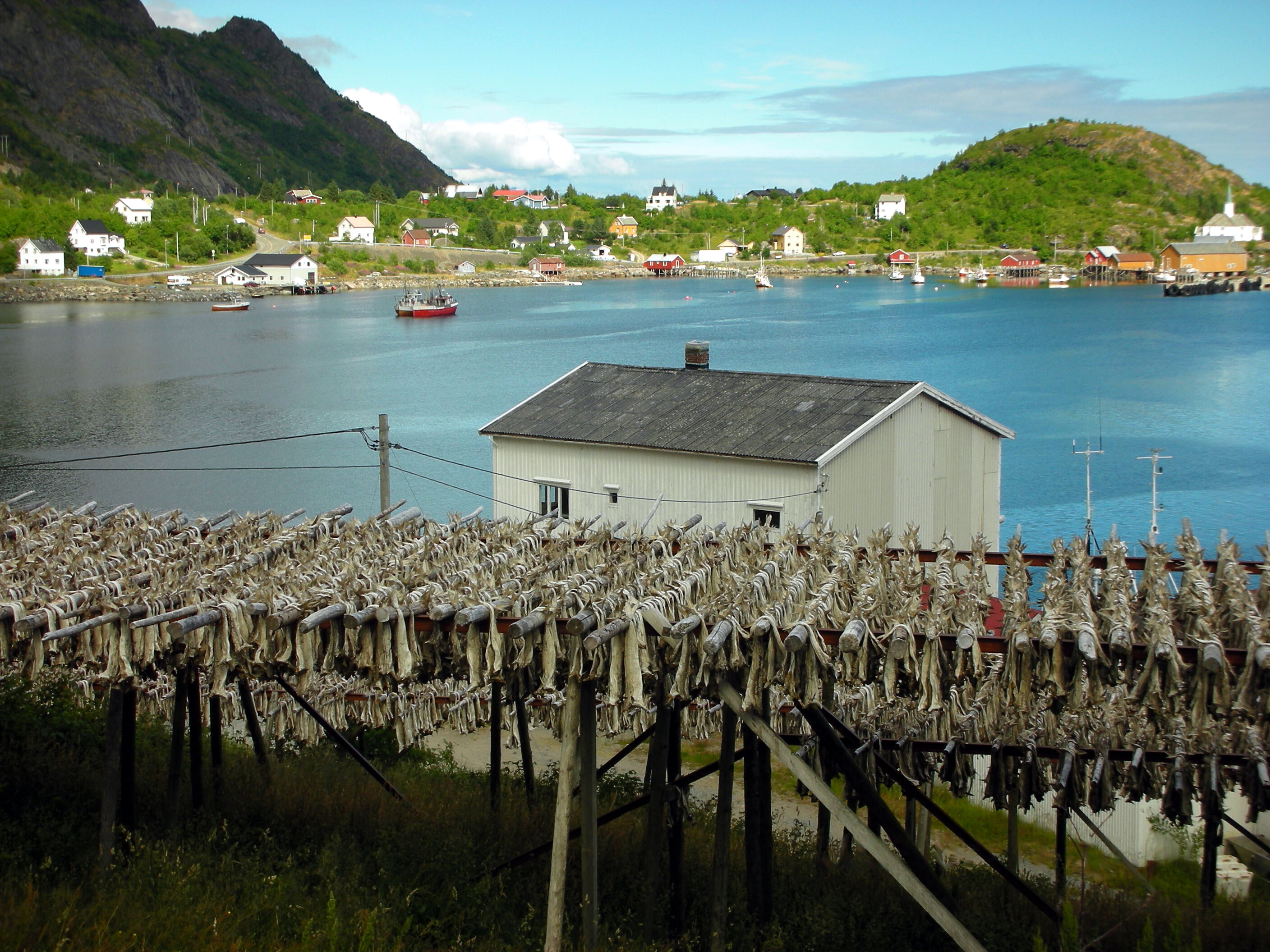 A fish-drying rack in Moskenes, Lofoten, Norway.